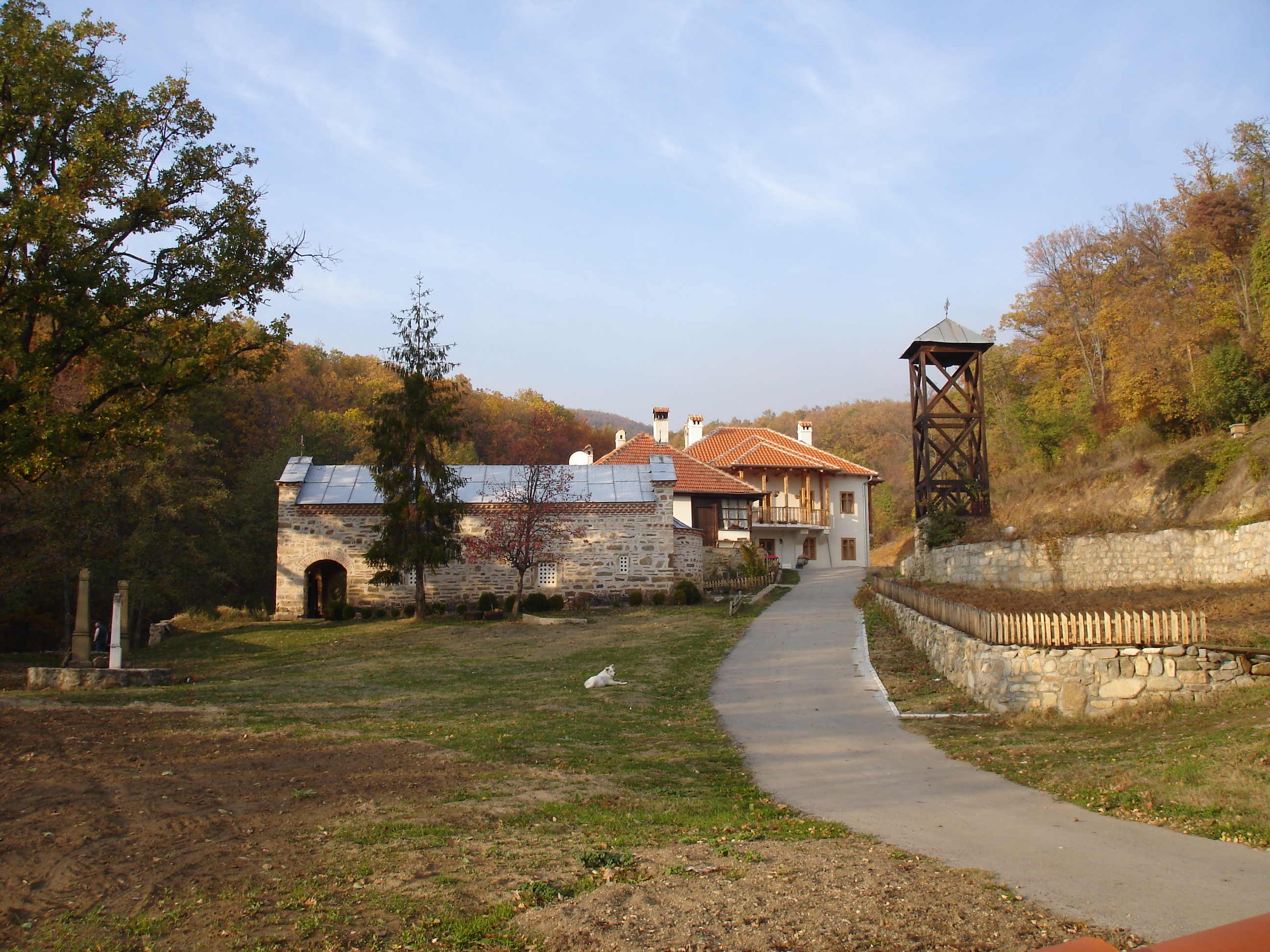 Ajdanovac Monastery (Jastrebac mountain, Serbia)